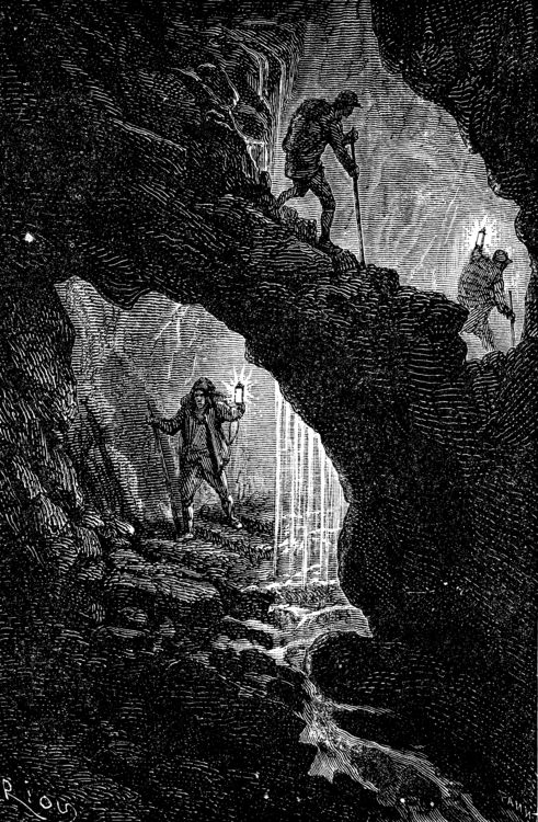 An ilustration from the novel "Journey to the Center of the Earth" by Jules Verne painted by Édouard Riou.